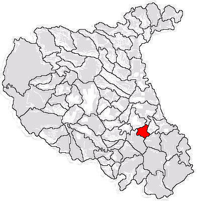 Map of limits of commune in Vrancea County